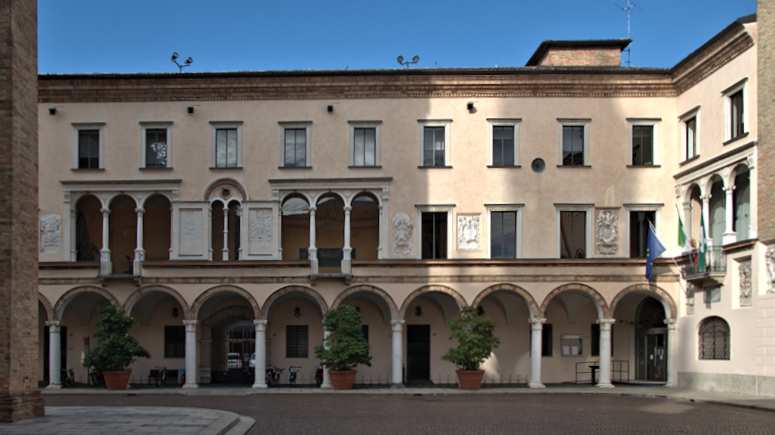 Particular of town hall of Crema (Italy)